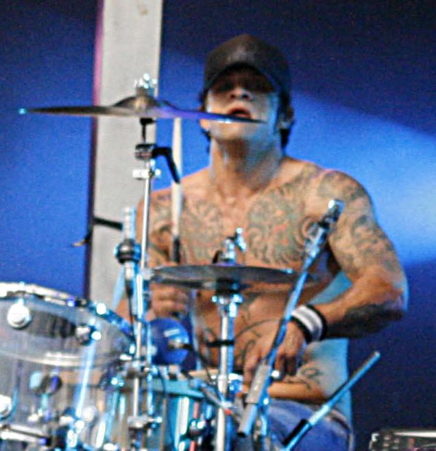 Joey Castillo on Wireless Festival, 2007